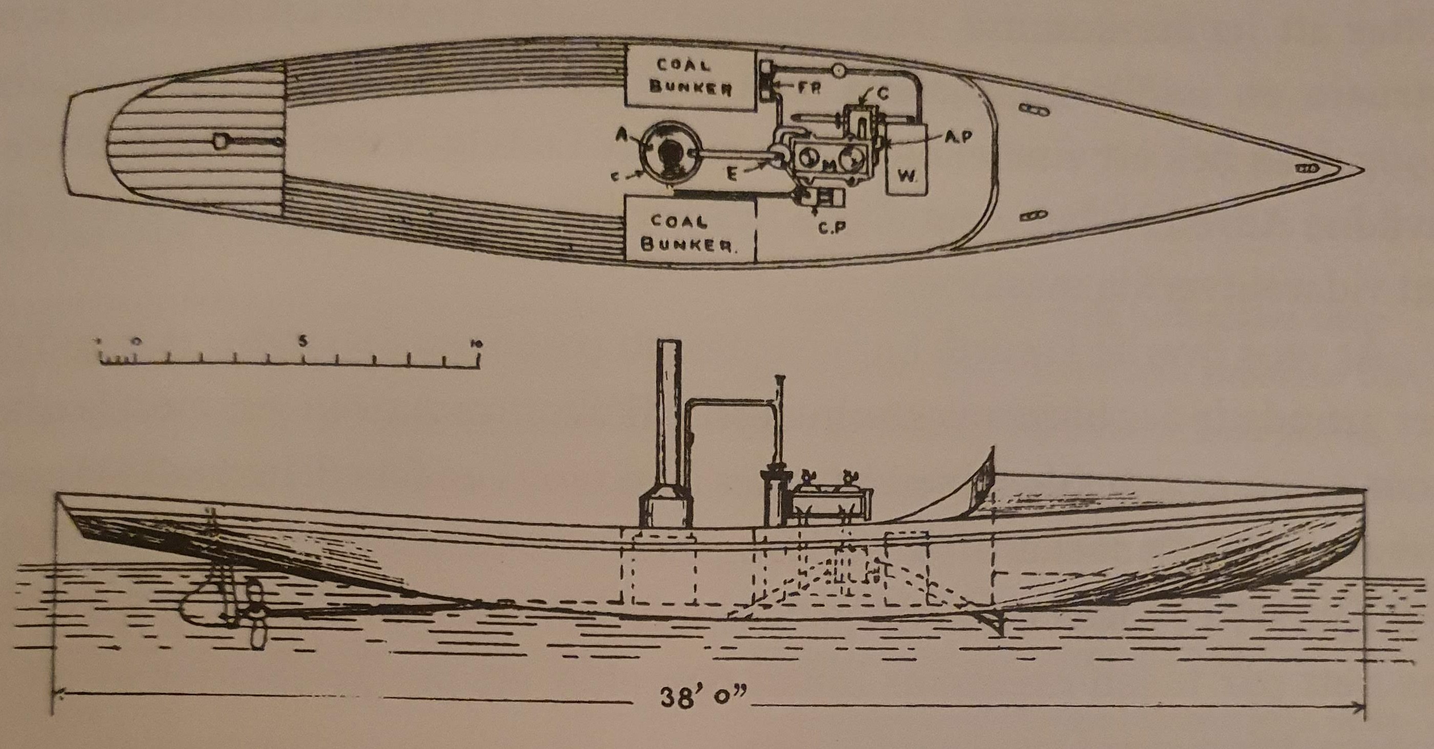 By 1895, Fredrik Ljungström had developed and patented a steam generator, an invention in which Alfred Nobel put particular interest. Epecially in its surface condenser invention. Applied to a sloop, with speed reaching 12 knot, it became the fastest steamboat around Stockholm archipelago in Sweden.